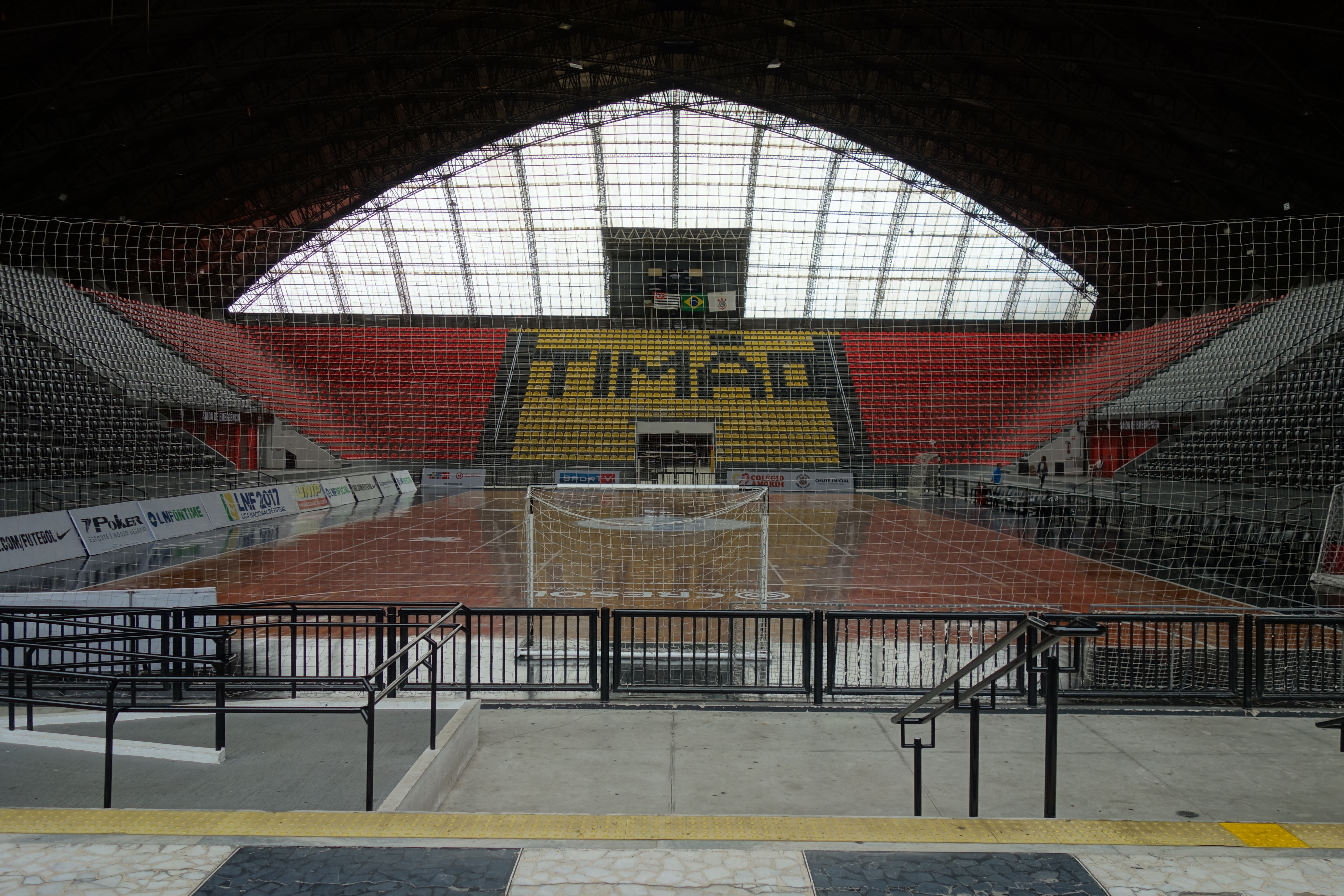 Internal view of Ginásio Wlamir Marques (Ginásio do Corinthians), São Paulo, Brazil.